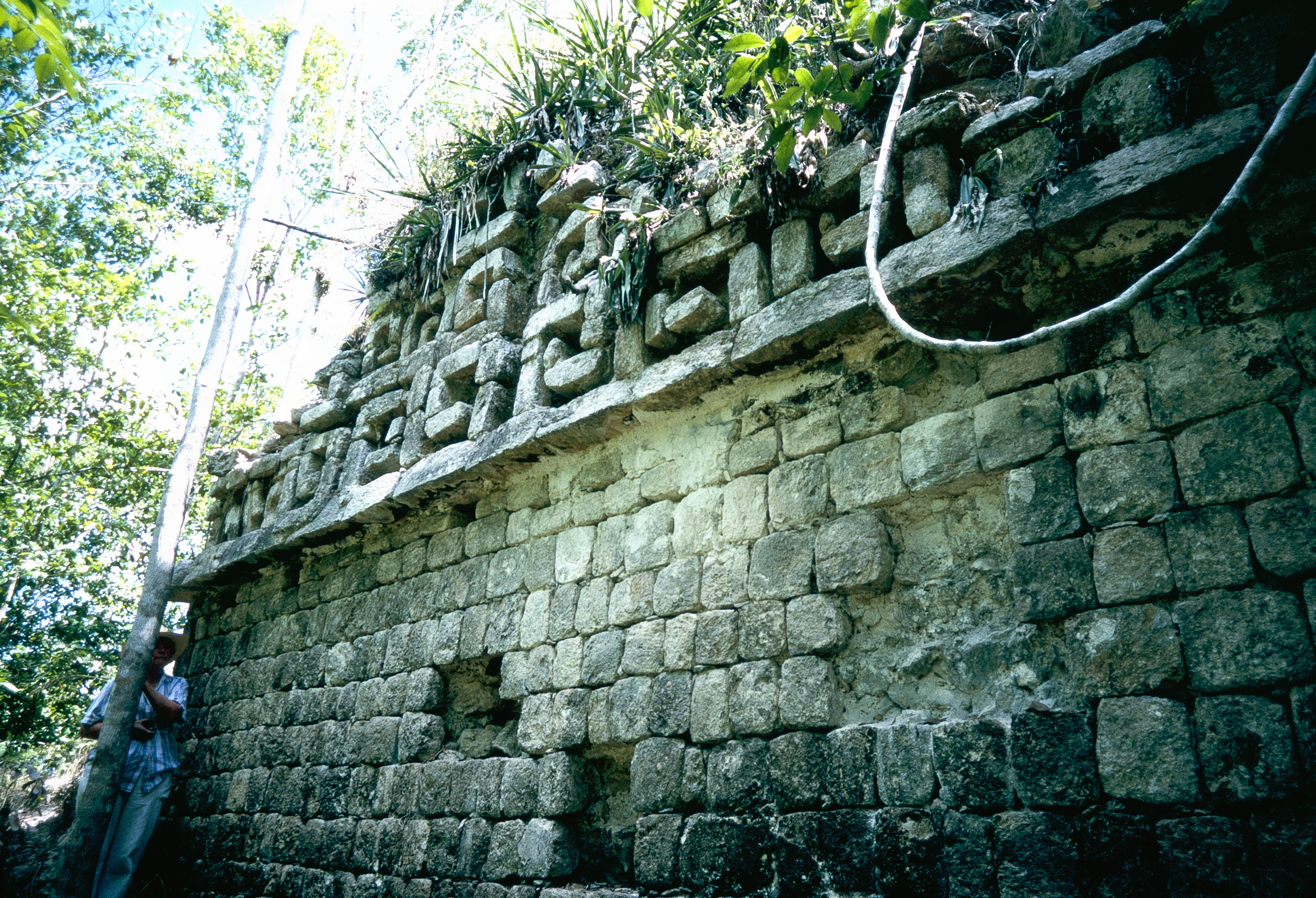 Witzinah, Yucatan, Mexico: building 1, rear facade